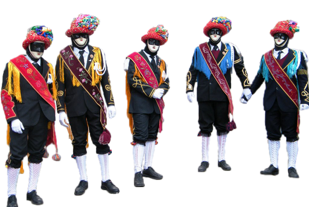 Balarì. Masks of Bagolino's Carnival.